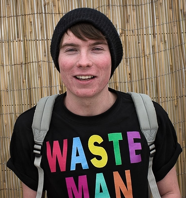 Joseph Dempsie, who plays Chris in Channel 4's Skins, backstage at T4 on the Beach in Weston-Super-Mare, England, July 2008.